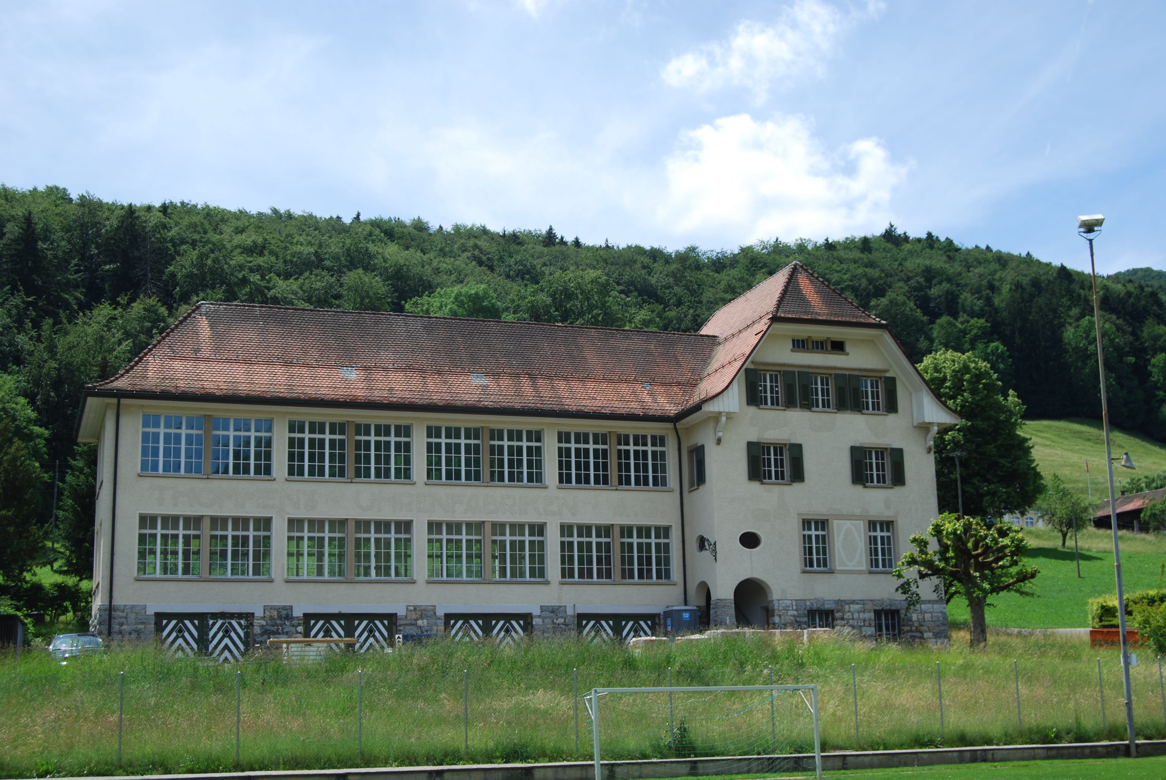 Langenbruck, canton of Basel-Country, Switzerland